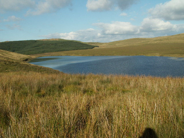 Llyn Penrhaeadr. Another artificial lake in the hills (alt approx 420m). Looking NE. The county boundary (Ceredigion/Trefaldwyn) runs straight down the middle.